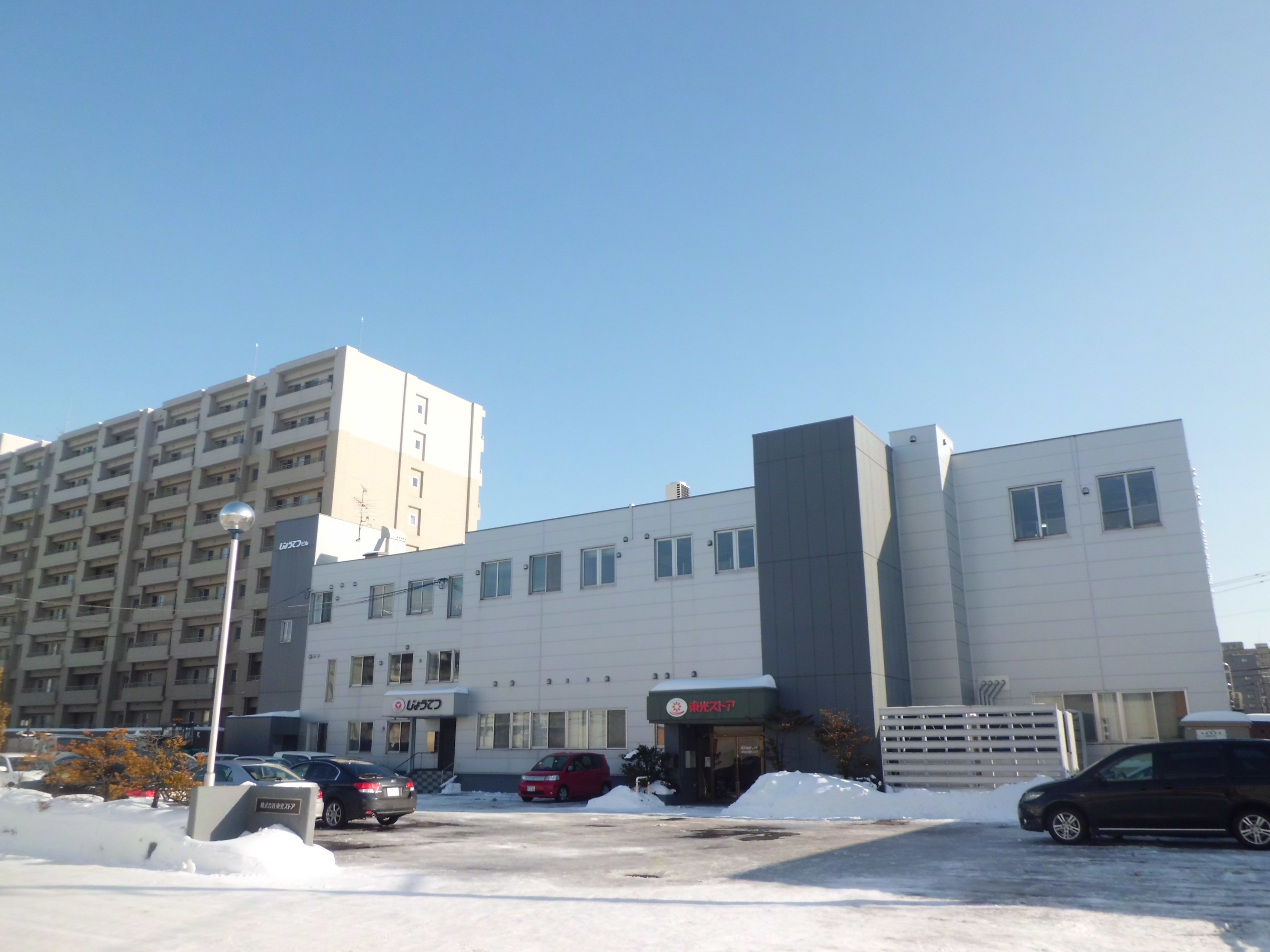 Jotetsu Building in Higashi-Sapporo, Shiroishi-ku, Sapporo city.